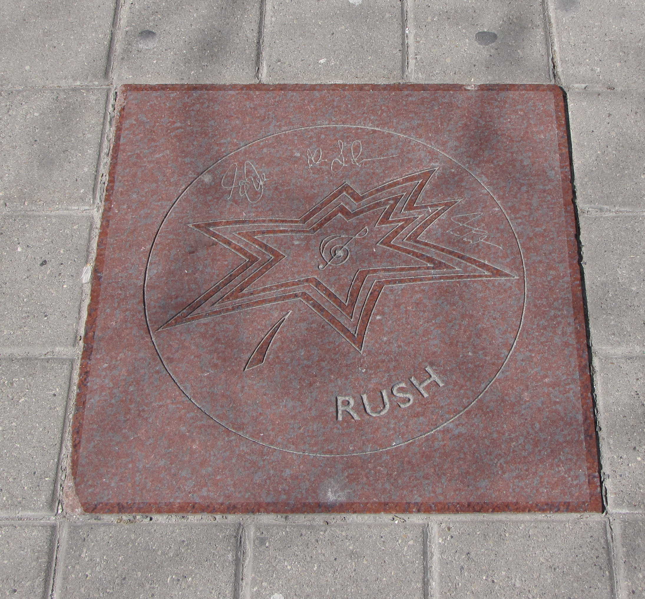 Star on Canada's Walk of Fame for the rock band Rush. Signatures are (from left): Geddy Lee, Alex Lifeson and Neil Peart